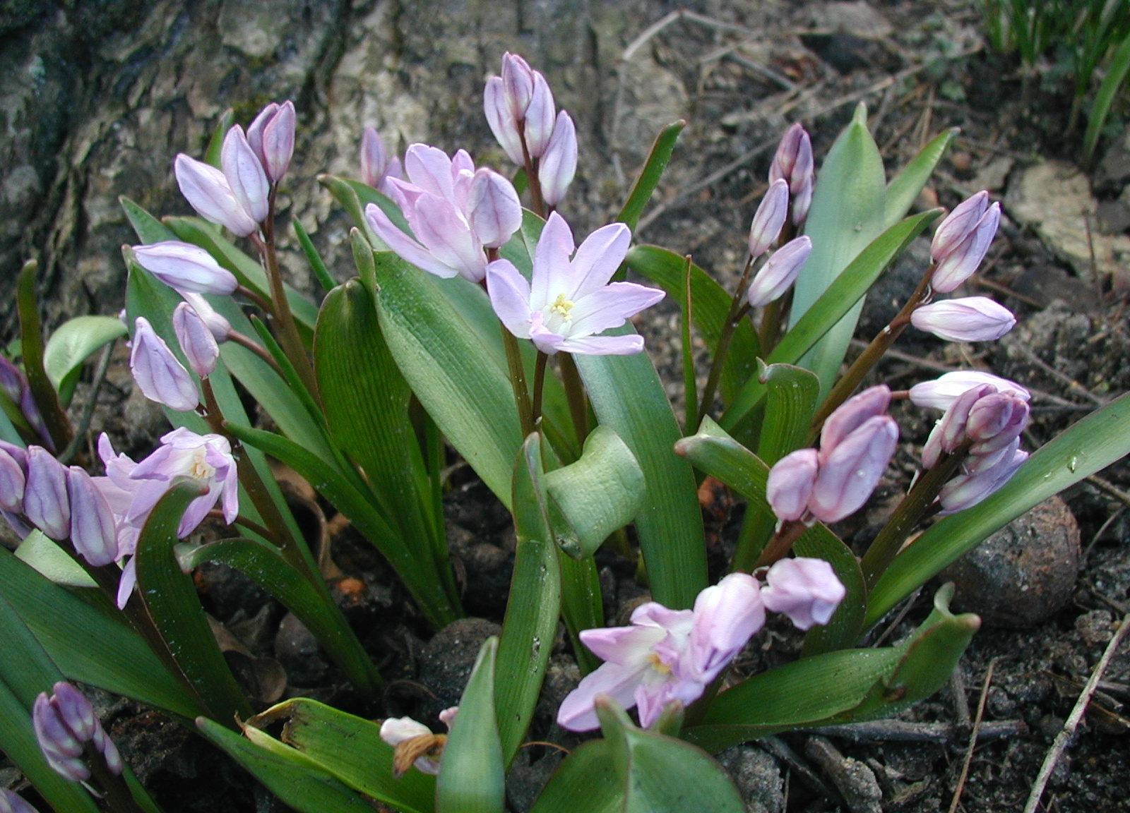 Chionodoxa luciliae: close-up on flowers.